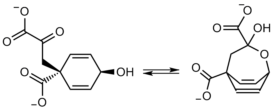 Epiprephenate hemiketalization